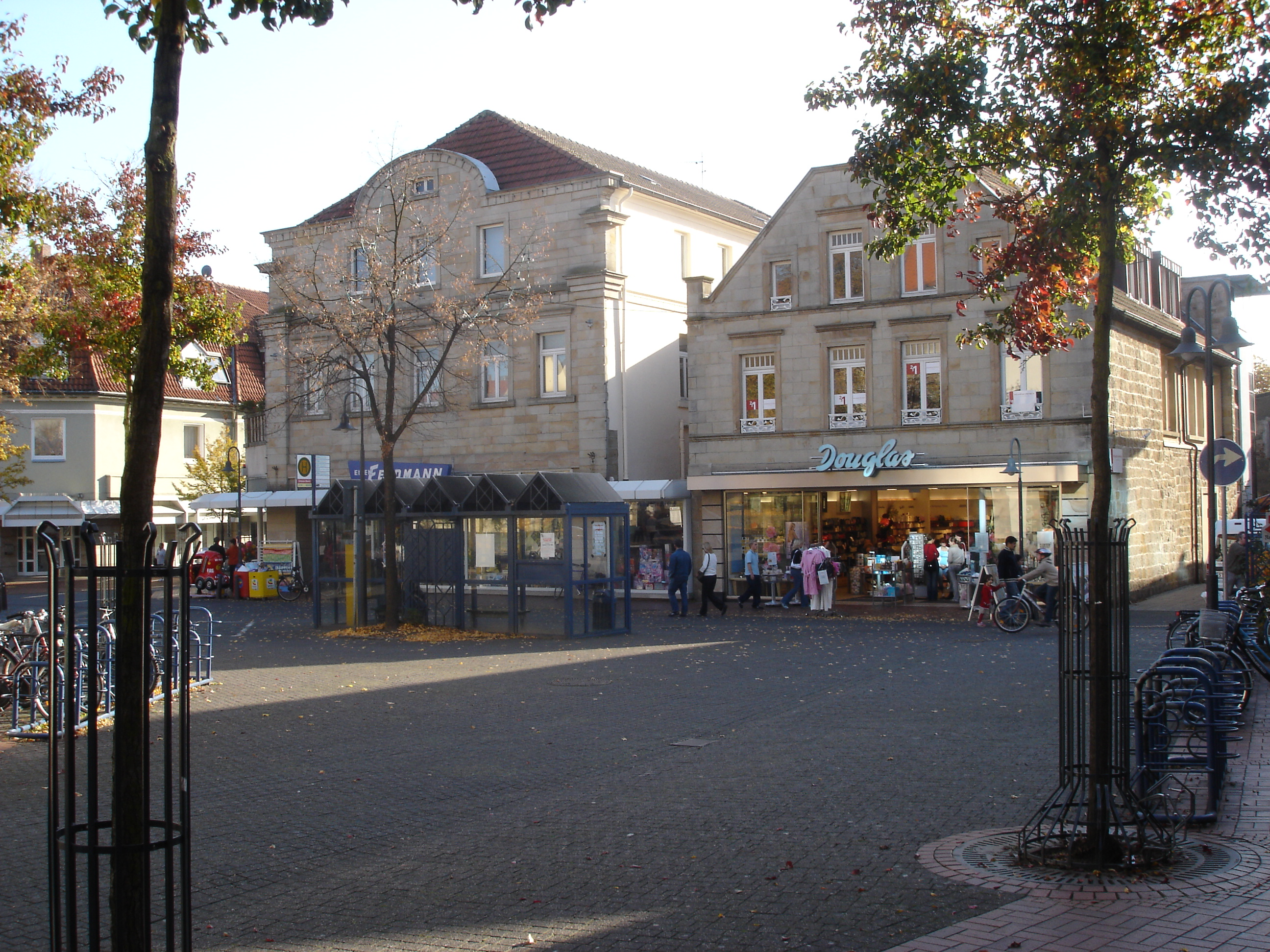 Lower Market of the city of Ibbenbüren